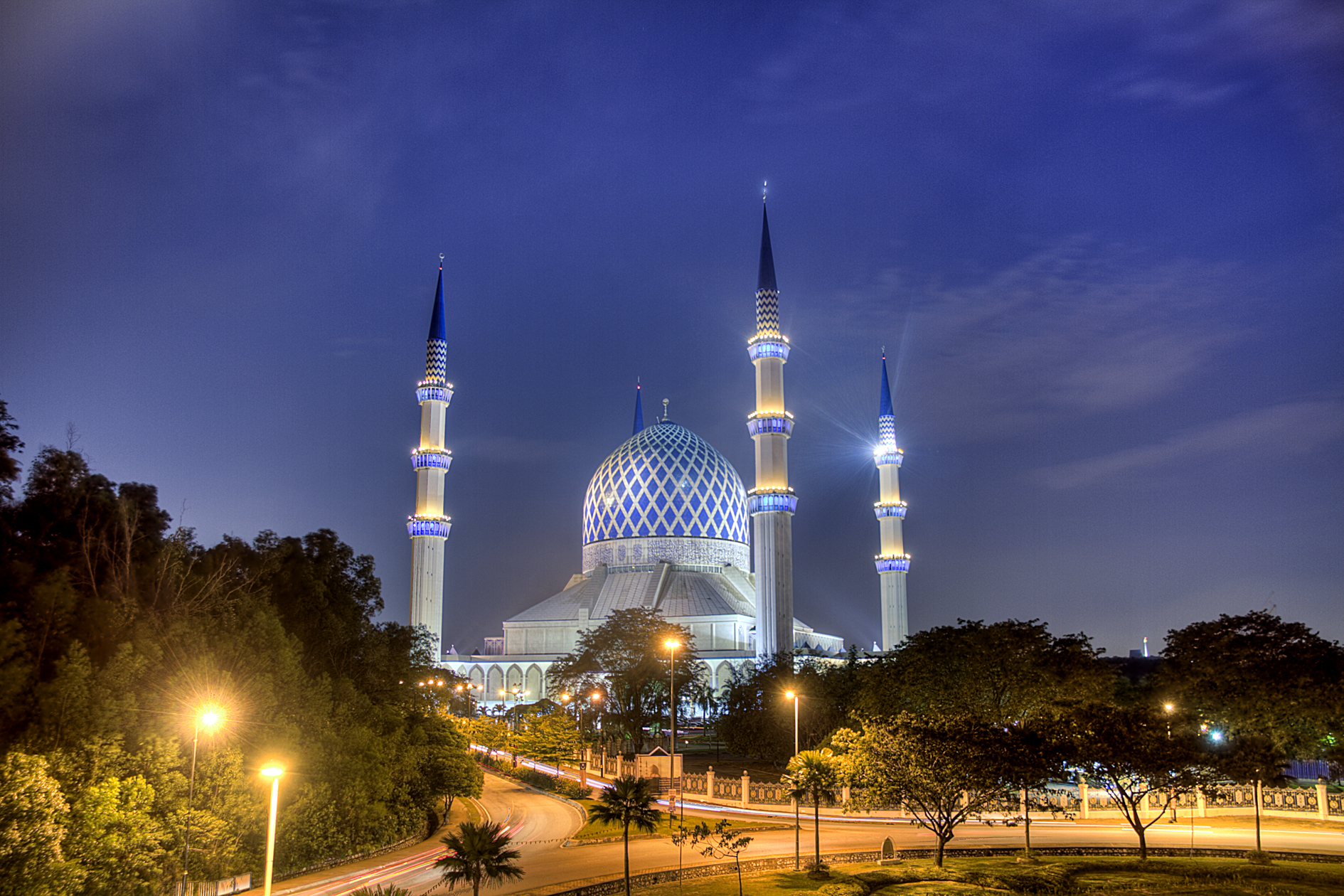 Sultan Salahuddin Abdul Aziz Shah mosque night view.